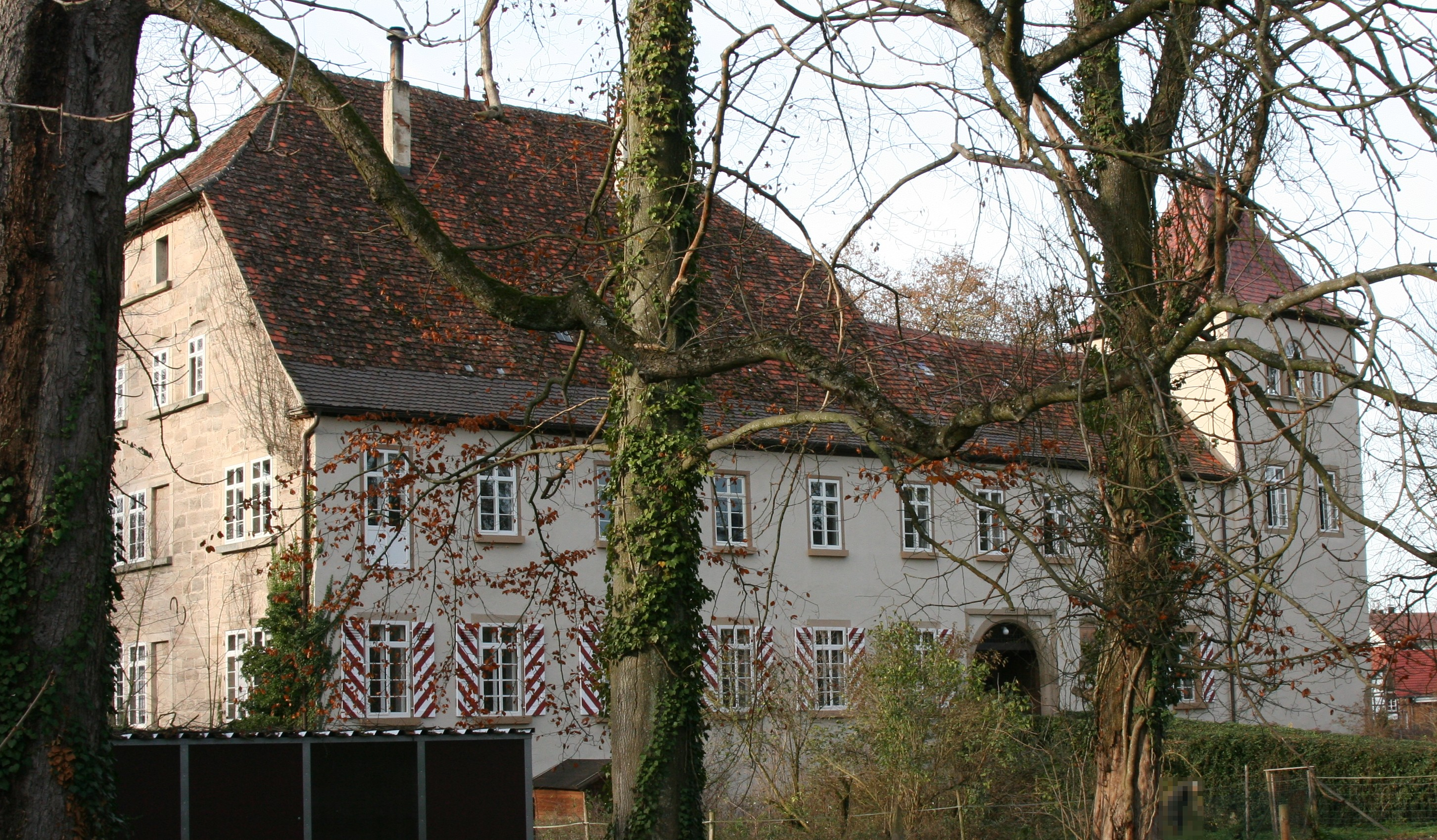 The castle in Obersulm-Weiler